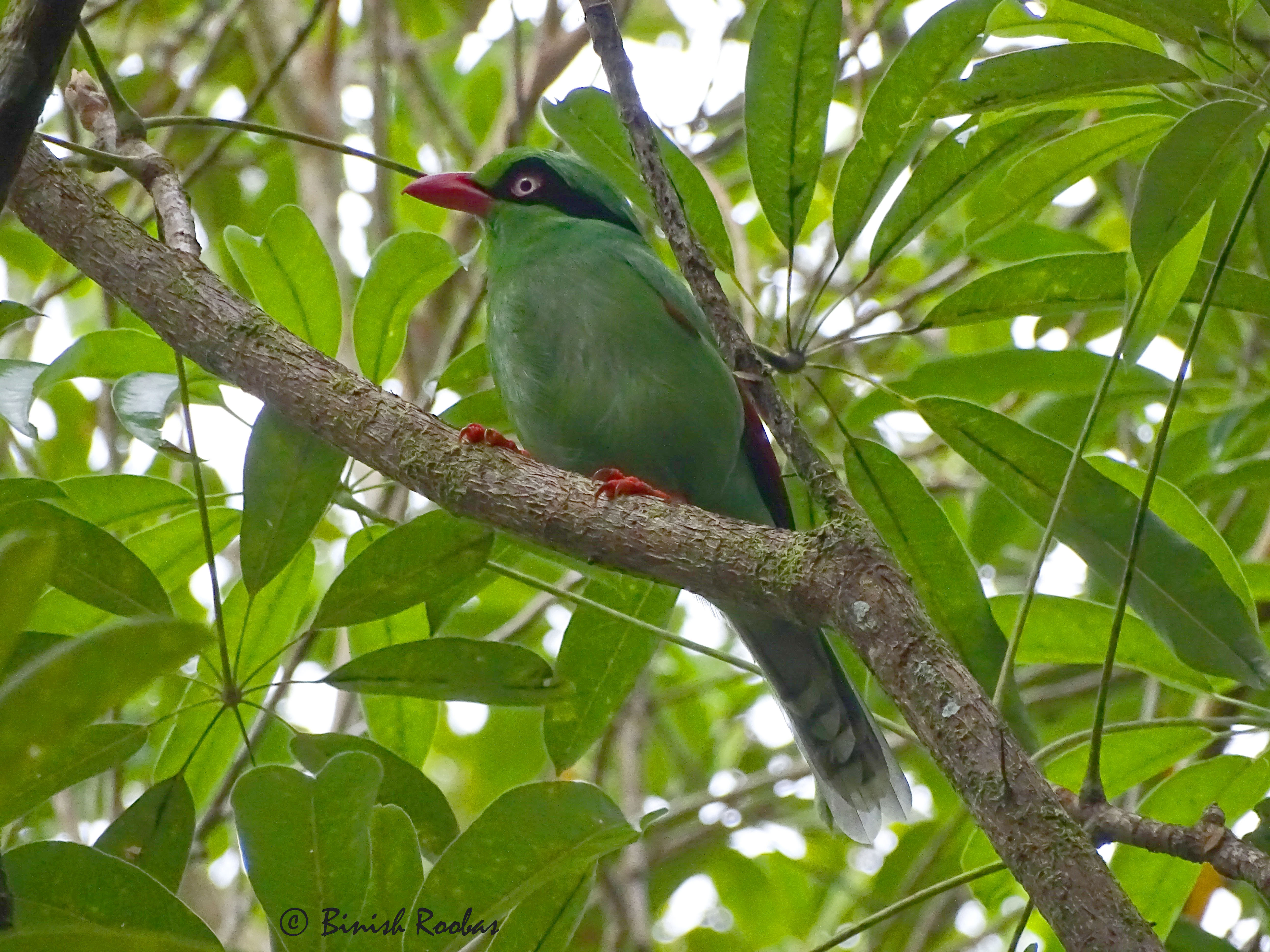 Bornean Green Magpie Cissa jefferyi, near Kinabalu, Borneo